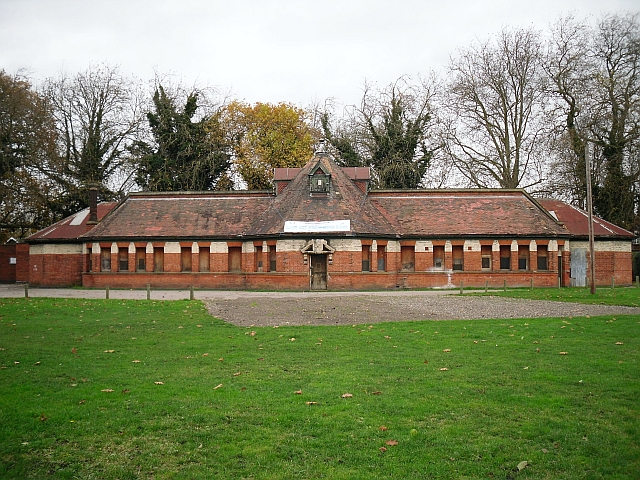 An Edwardian municipal open air pool dating from 1902. Originally for women only, later for mixed bathing. The last public admission was in the mid 1970s. The building was leased for some years (with the pool boarded over) to a dive club, but is currently disused and in a poor state of repair. In the early 2000s Reading Borough Council was considering private redevelopment of the site. This triggered the formation of a group aiming to save the baths from demolition and have it restored for public use. The campaigners' cause was boosted when English Heritage gave the building a Grade II listing in 2004. However, the KMC were unable to raise sufficient funds for their own renovation scheme, and the Council decided in November 2012 to put the site on the market.